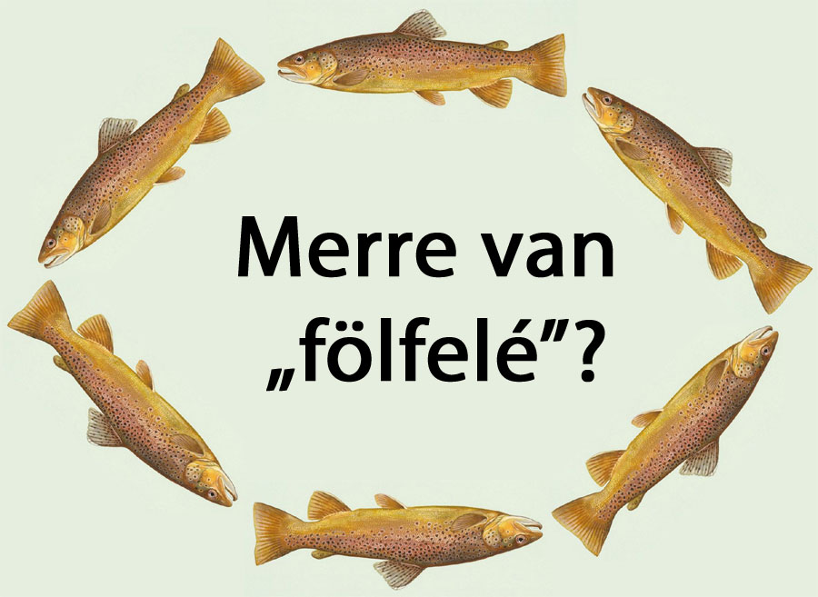 Hungarian translation of Image:Many Brown Trout.JPG